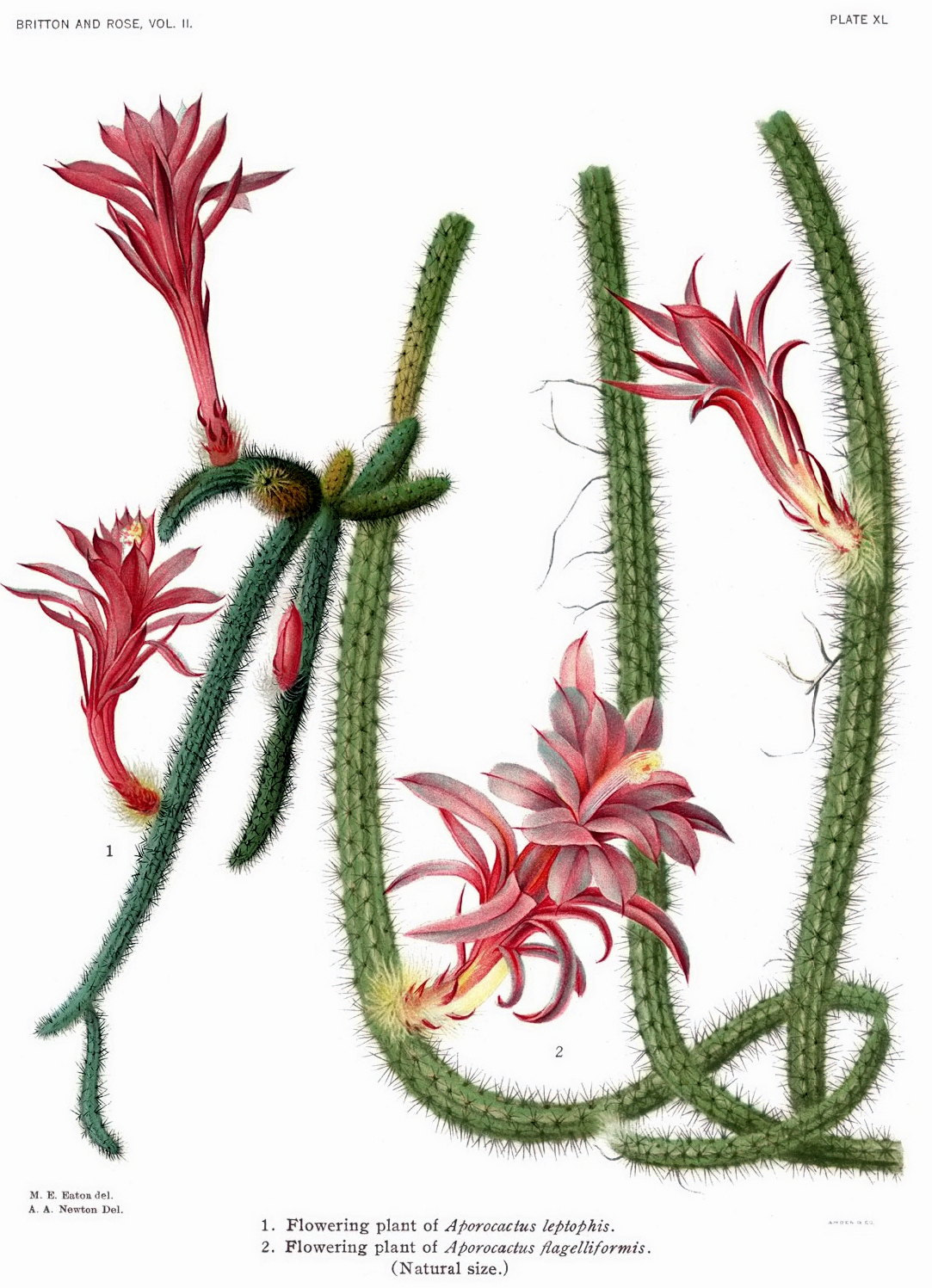 Disocactus flagelliformis